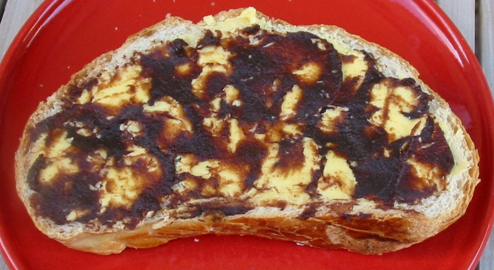 Black butter on a buttered slice of cabbage loaf